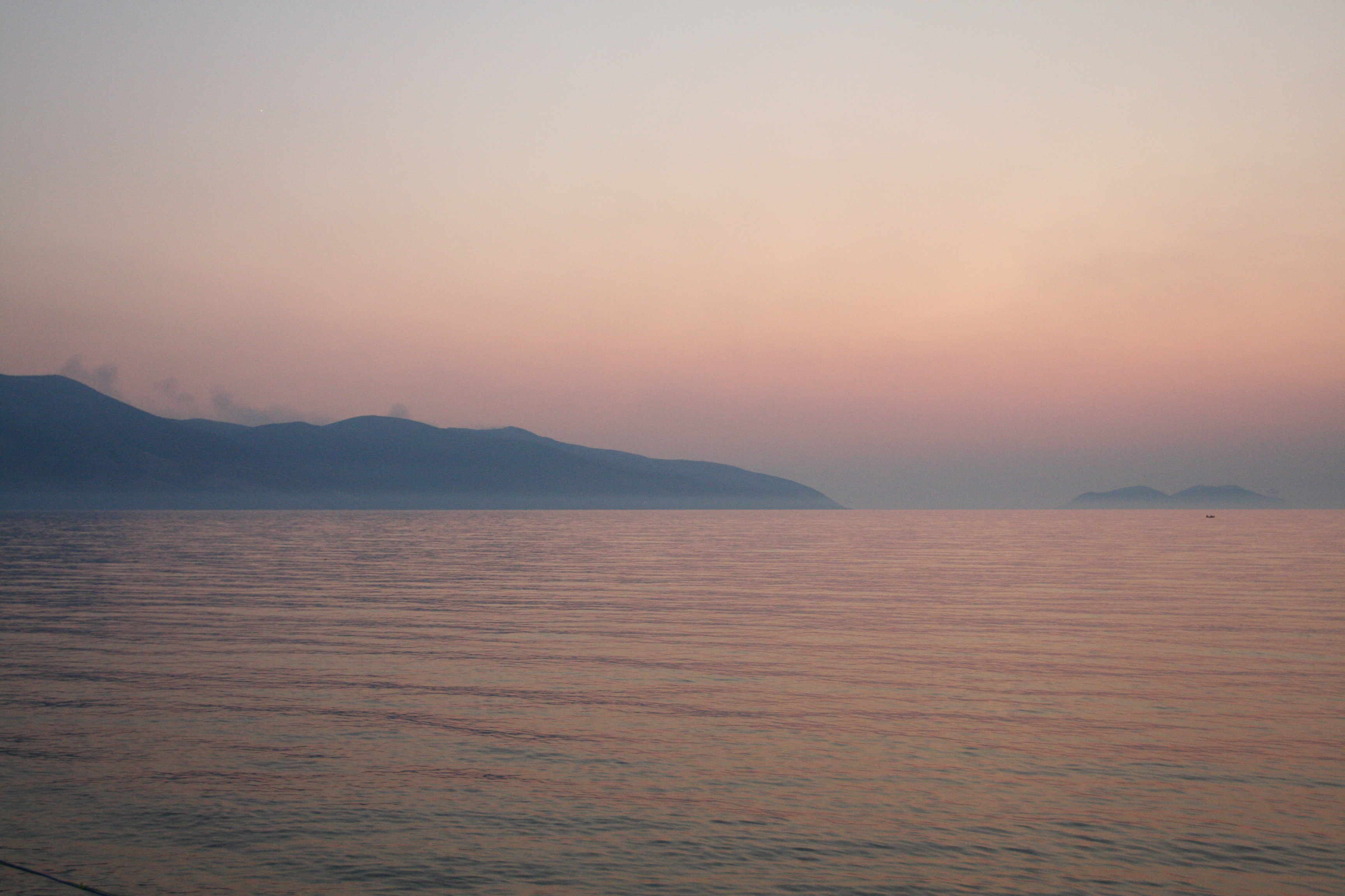 Sunset on the Bay of Vlora, the Karaburun Peninsula and the island of Sazan can be seen